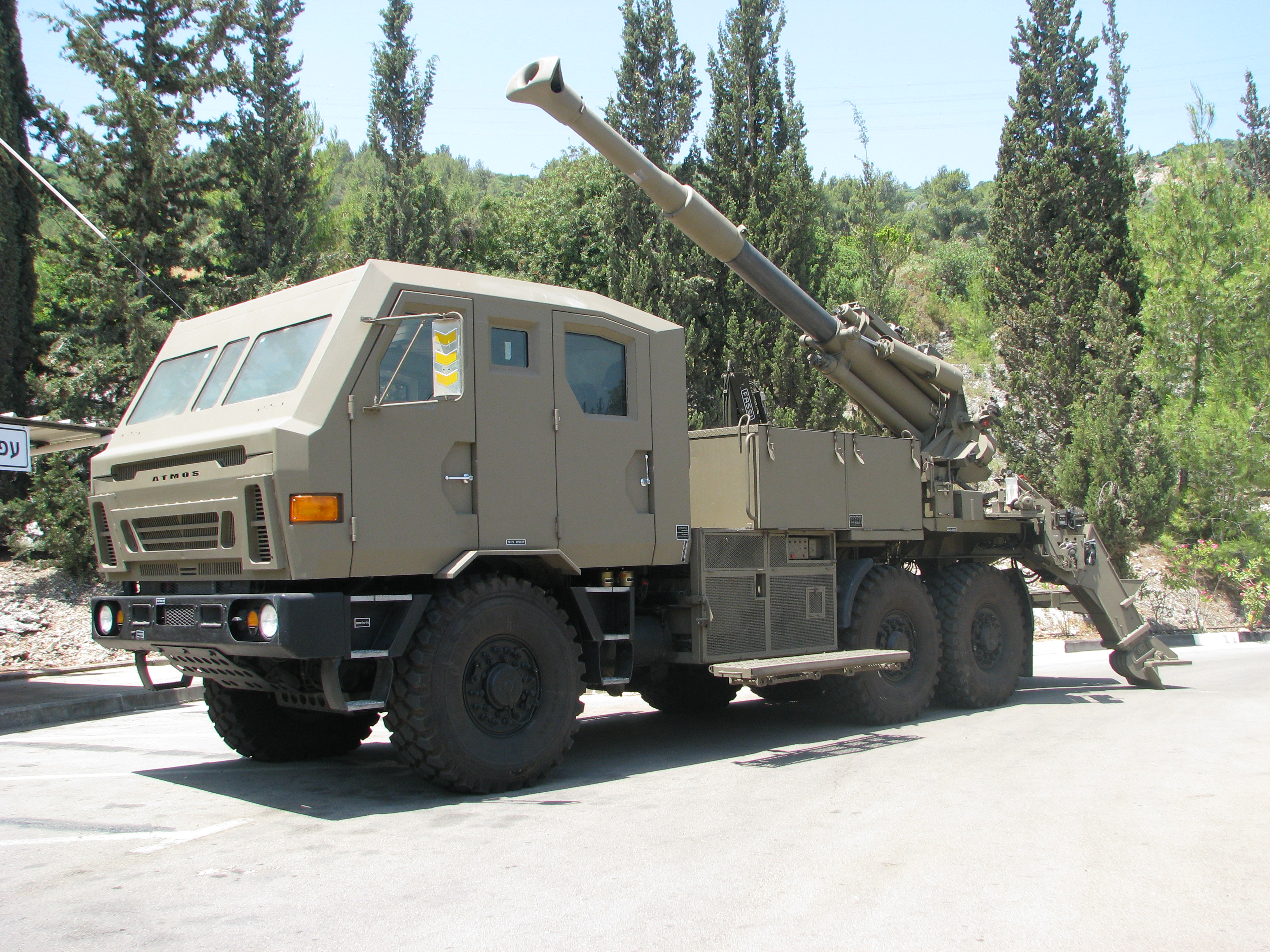 ATMOS 2000 (Autonomous Truck MOunted howitzer System) 155 mm/39 calibre self-propelled howitzer in tests with IDF